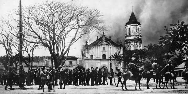 Burning of the Malolos Cathedral.